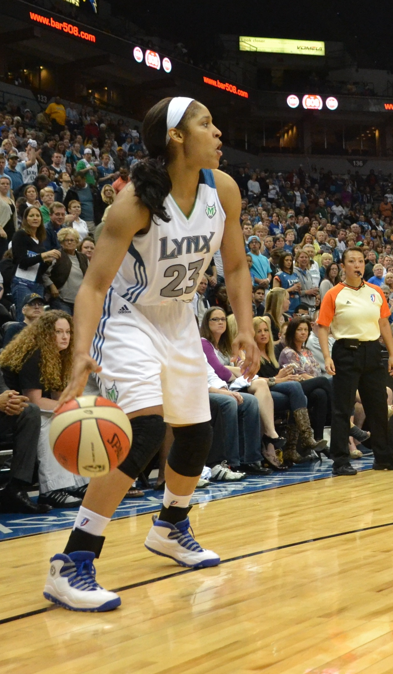 Maya Moore at opening day for the Minnesota Lynx 2012